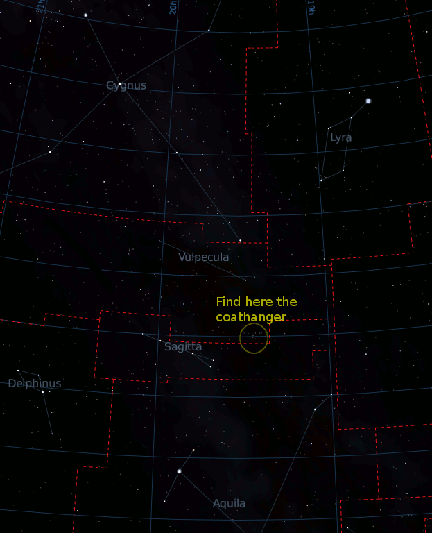 How to find coathanger (Brocchi's cluster).